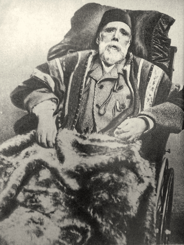 Isma'il Pasha son of Ibrahim Pasha, the Khedive of Egypt and Sudan, in his final days of life.